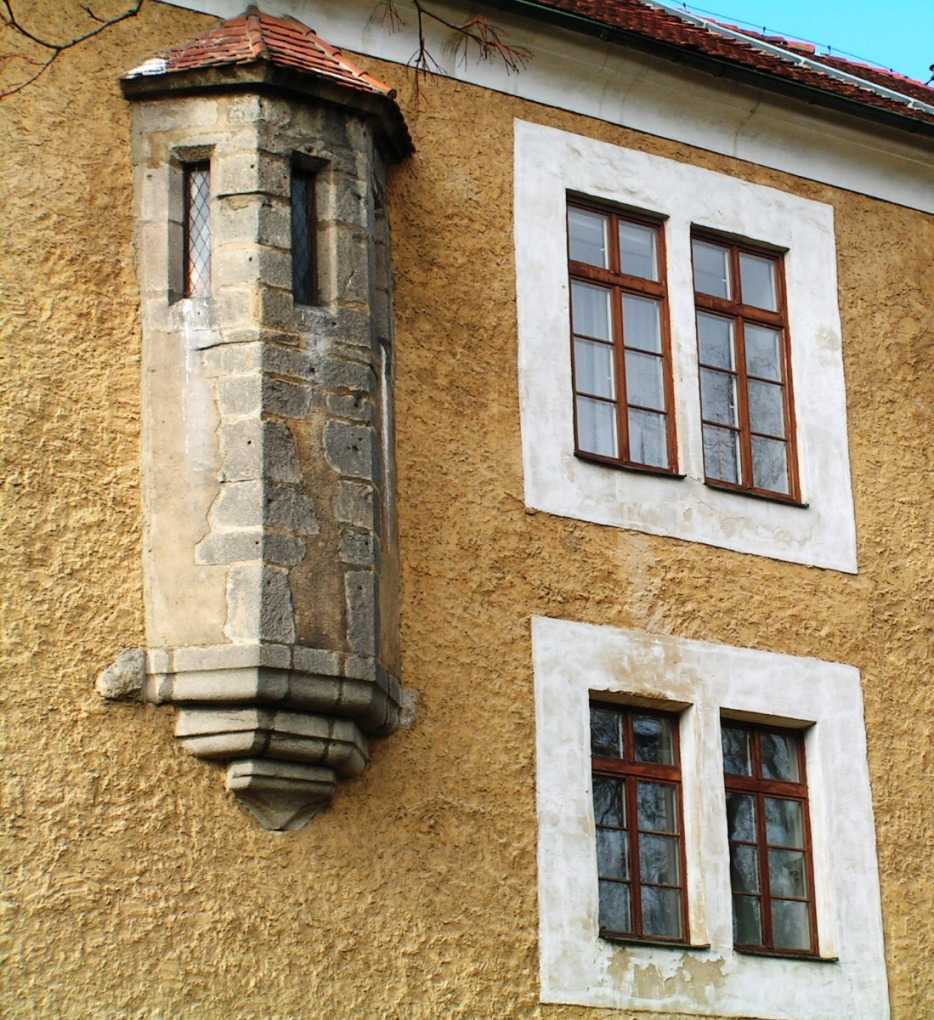 Castle-Ernestinum in city of Příbram - detail.